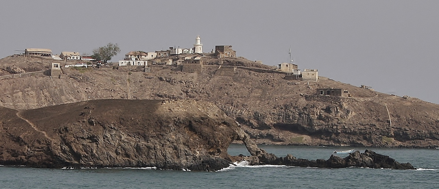 Elephant Bay Lighthouse